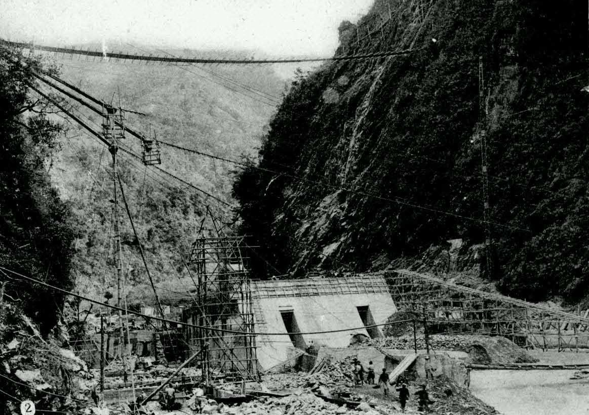 武界取入口堰堤工事 (c. 1933)